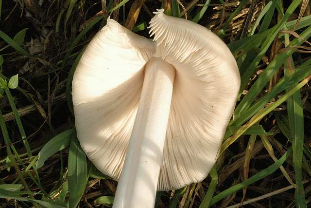 Volvariella gloiocephala from Commanster, Belgium. The determination of the species shown in this picture has been verified.